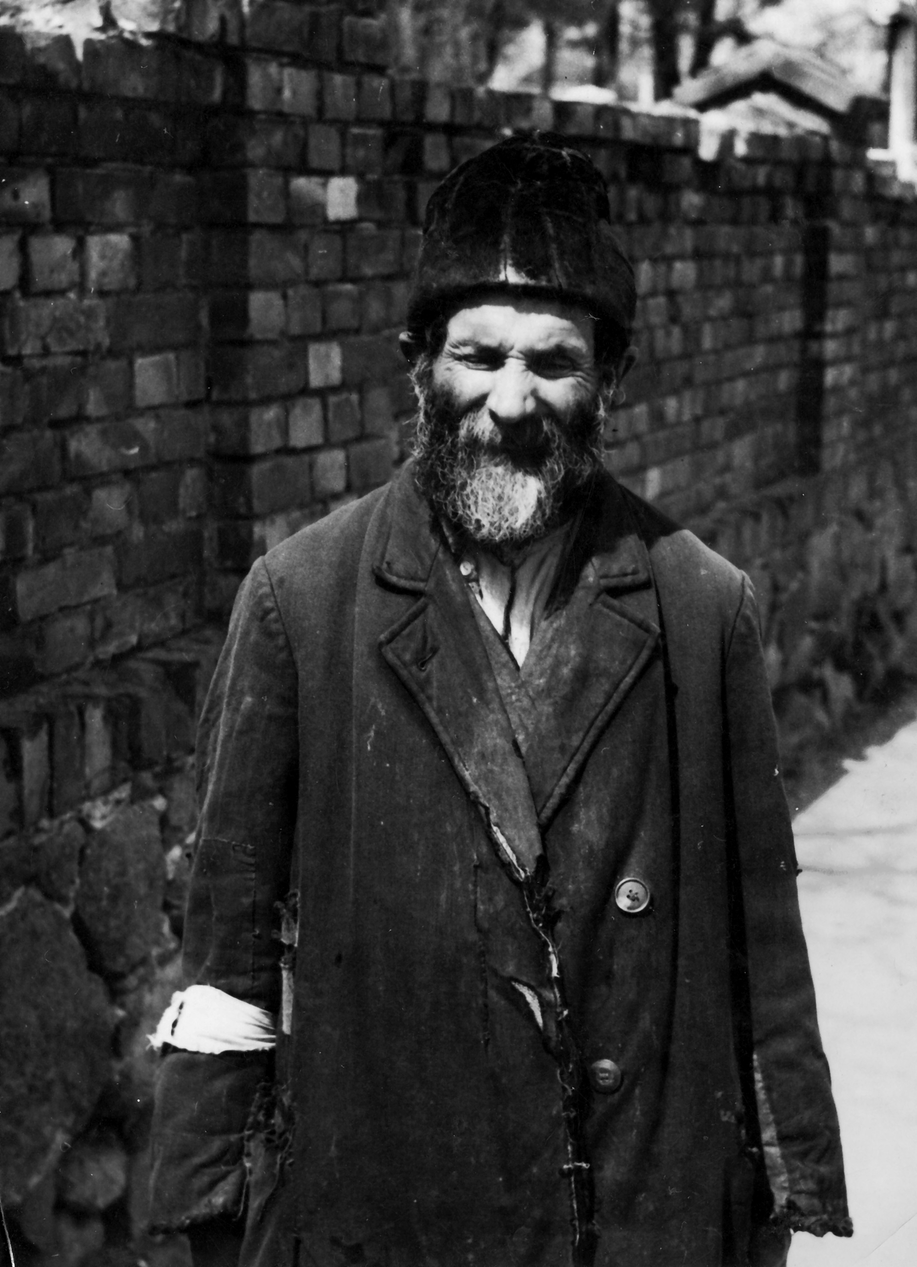 Old Jew in Warsaw ghetto